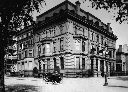 William C. Whitney House on the northeast corner of 68th and Fifth Avenue in New York